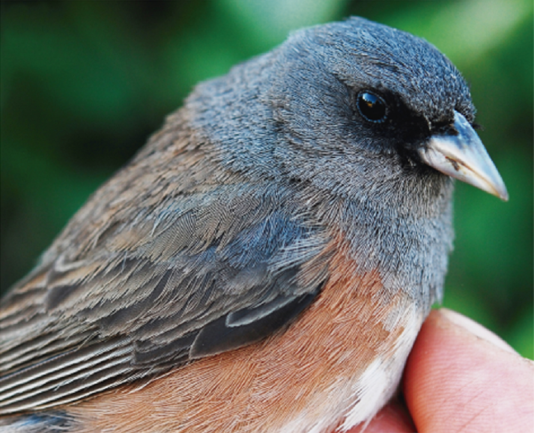 Guadalupe Junco Junco insularis, male; Guadalupe Island, Mexico